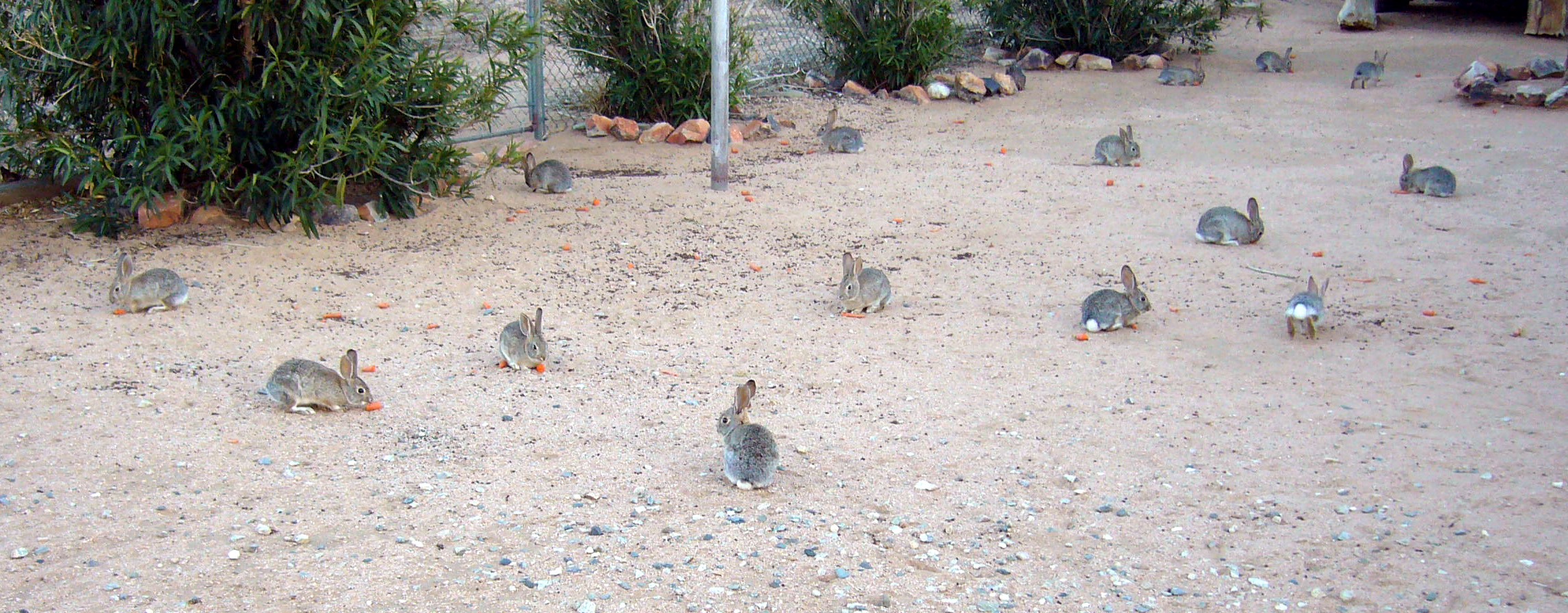 Cottontail Rabbits are very Sociable Animals